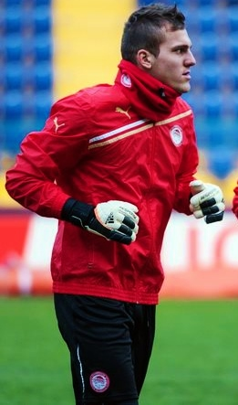 Balázs Megyeri